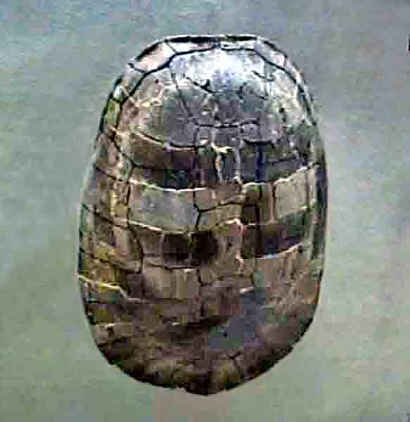 Shell of Adocus beatus (synonyms: A. punctatus, A. lacer), USA, New Jersey, Cretaceous period, at the Peabody Museum of Natural History, Yale